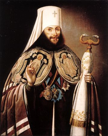 Filaret, Metropolitan of Moscow